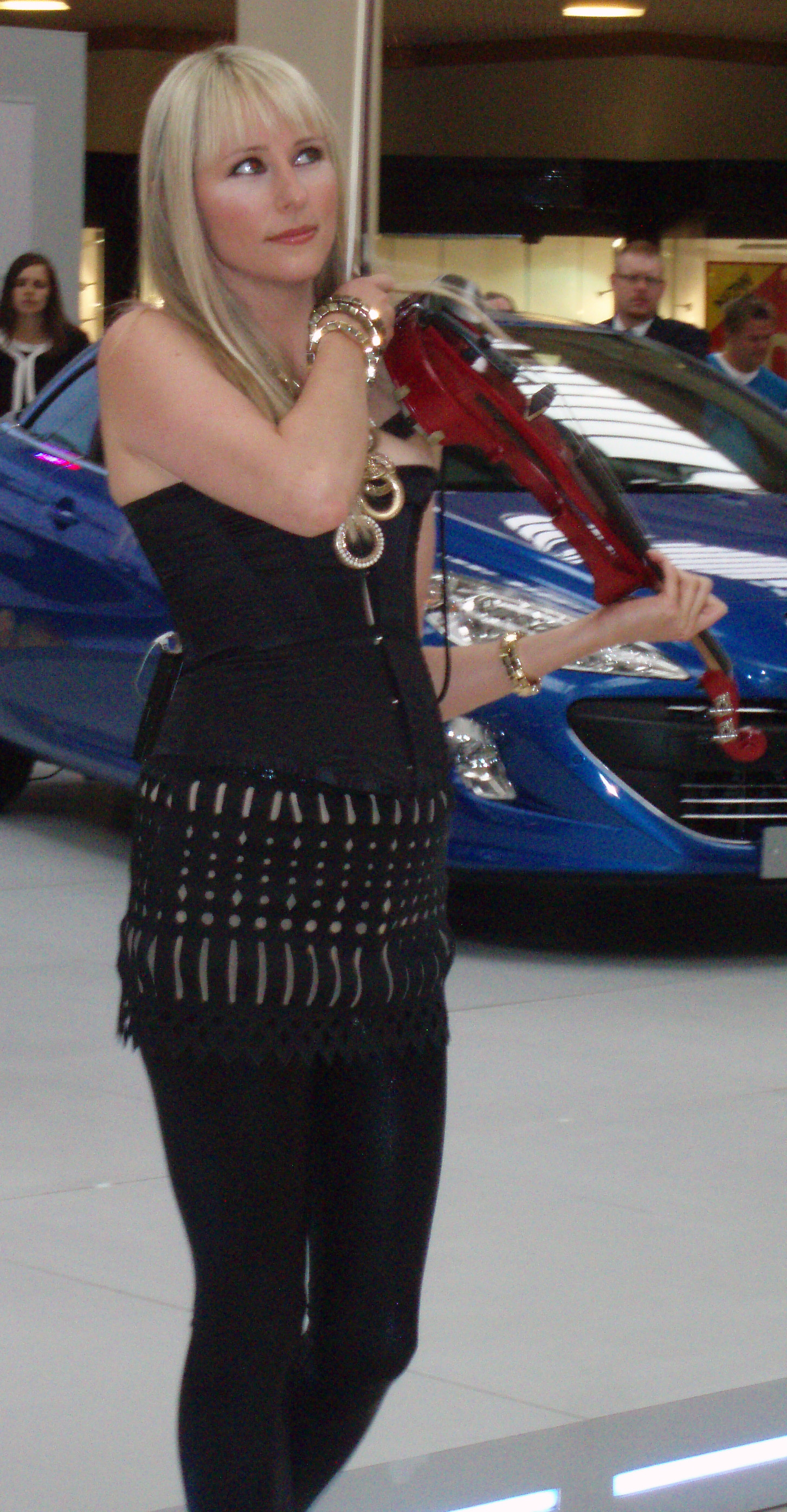 Tania Davis of Bond performing at the Metrocentre in Gateshead, UK in promotion of Peugeot on 27 June 2009.